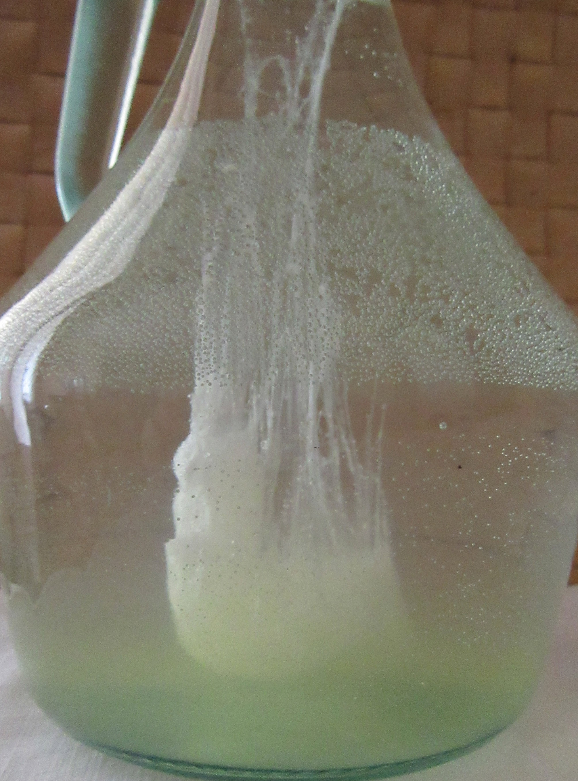 The traditional st Peter's boat, made with egg white and water